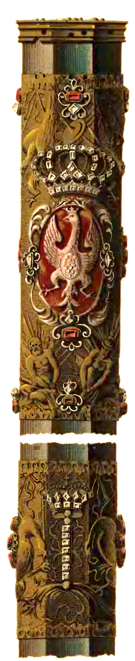 Cane of great marshal of the Polish Crown XVII century